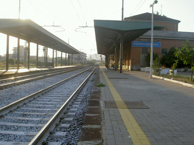 Railway station of Pontecagnano